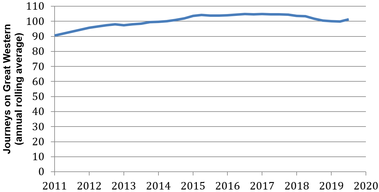 Passenger numbers on Great Western Railway from 2012/2013 Q1 - 2015/16 Q3 (rolling 12-month figure)[1]